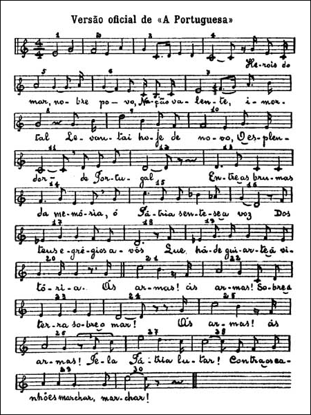 Musical sheet with official version (1957) of the Portuguese national anthem ("A Portuguesa")